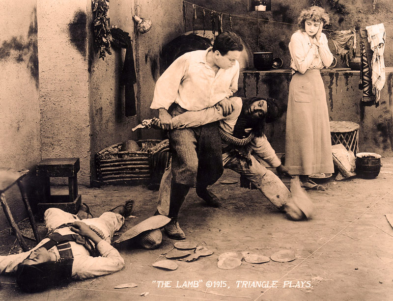 Douglas Fairbanks and Seena Owen in The Lamb (1915) - publicity still